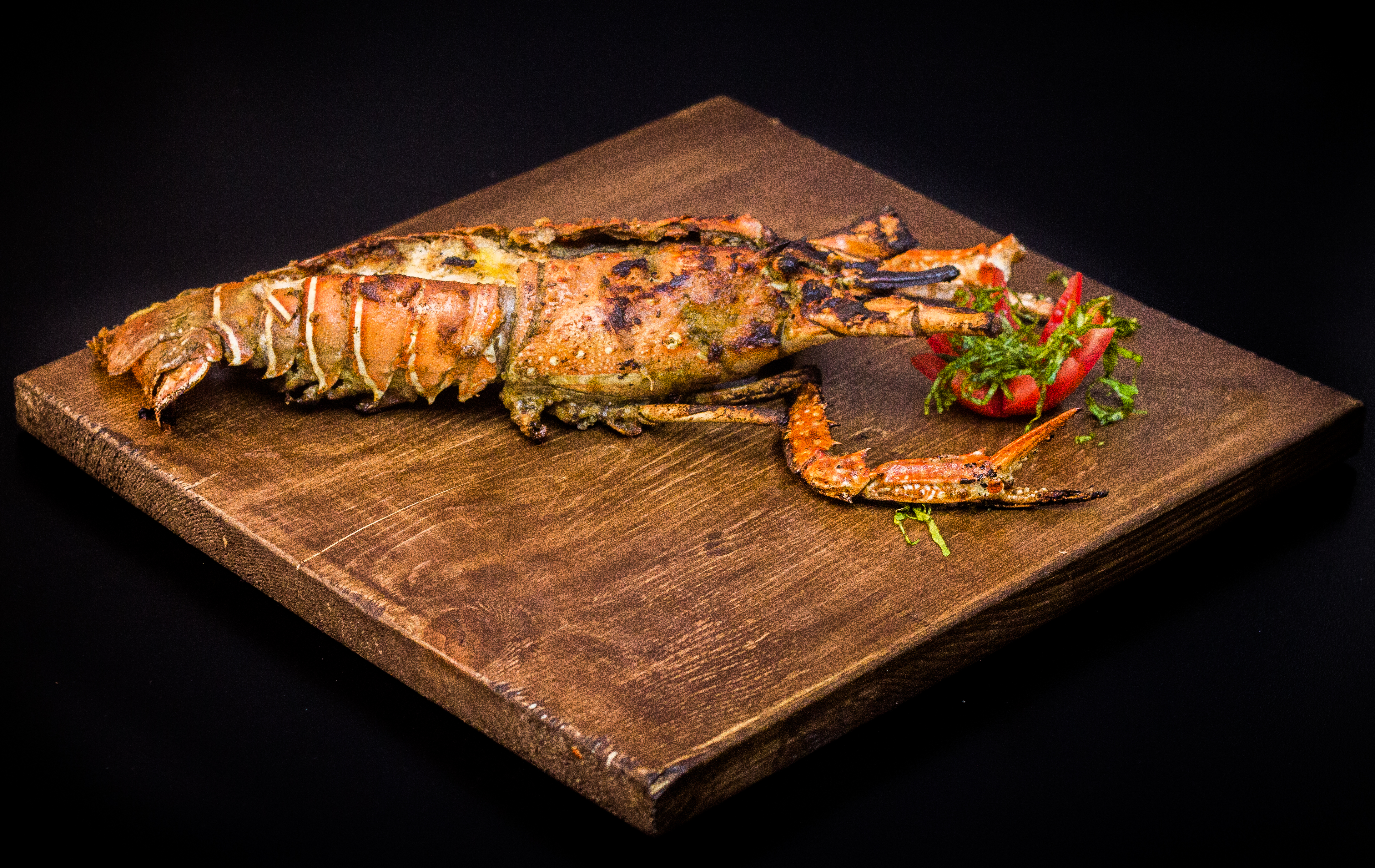 Prawn BBQ, C Minor Music Cafe, Bangladesh